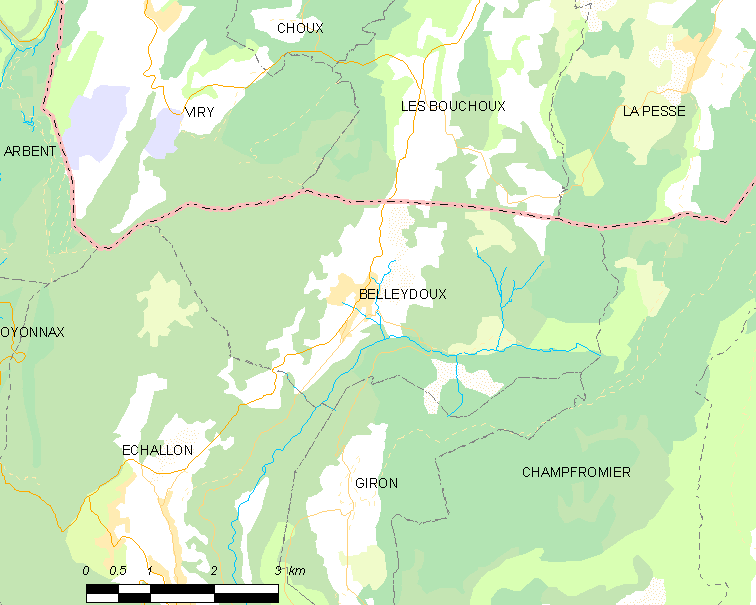 Map of French commune: Belleydoux Map commune FR insee code 01035.png